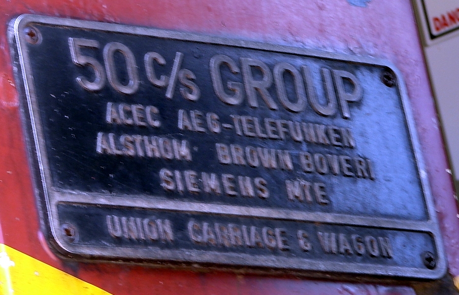 SAR Class 7E2 Series 2 E7204 Builder's PlateLocation: Pyramid South, Pretoria, Gauteng